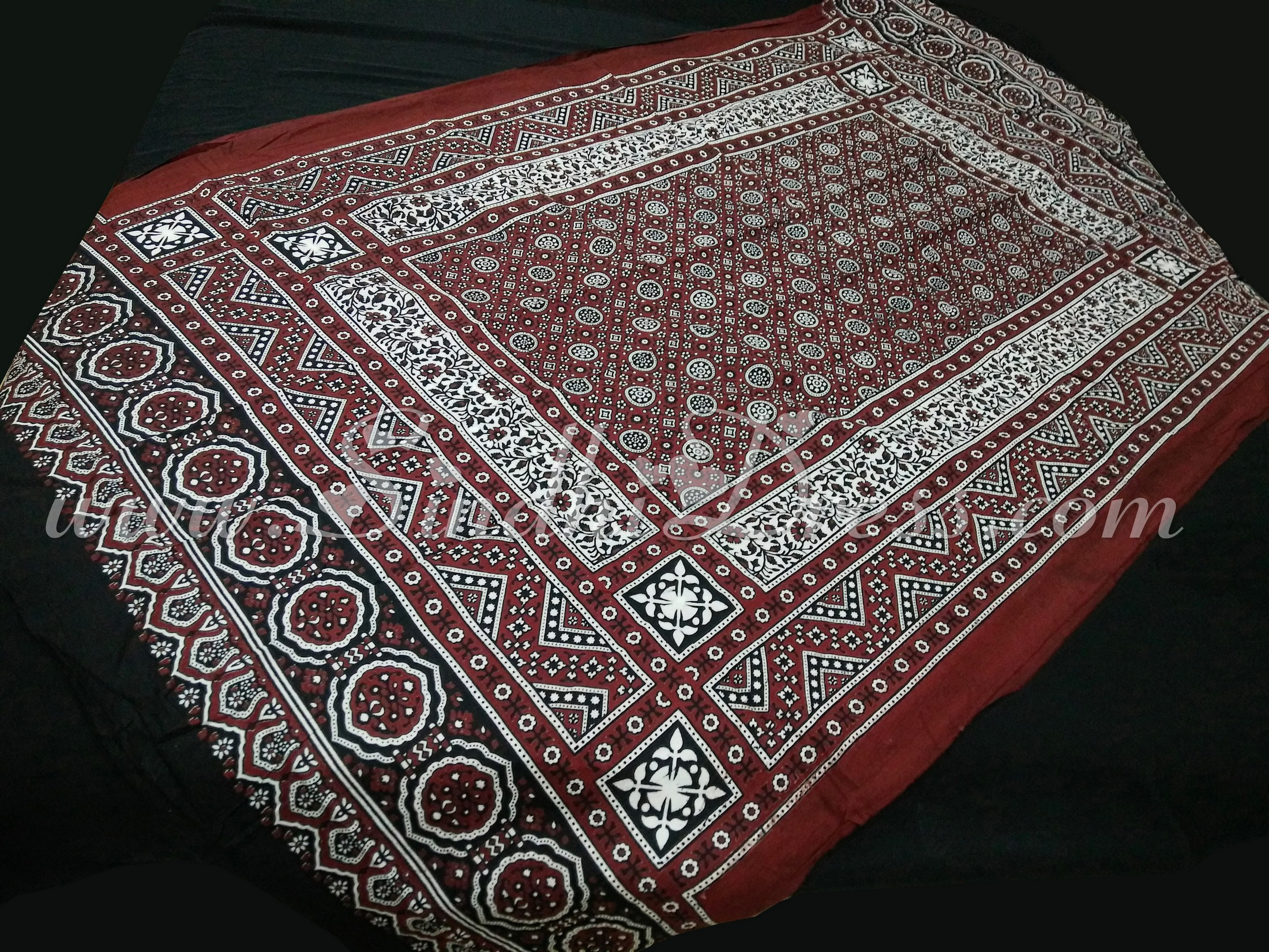 Source via